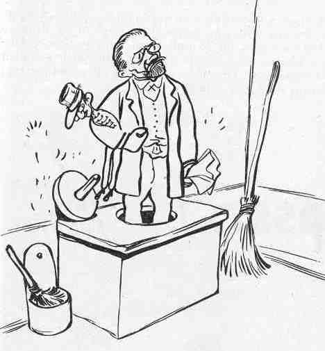 Drawing of Zola during de Dreyfus affaire by Caran D'Ache